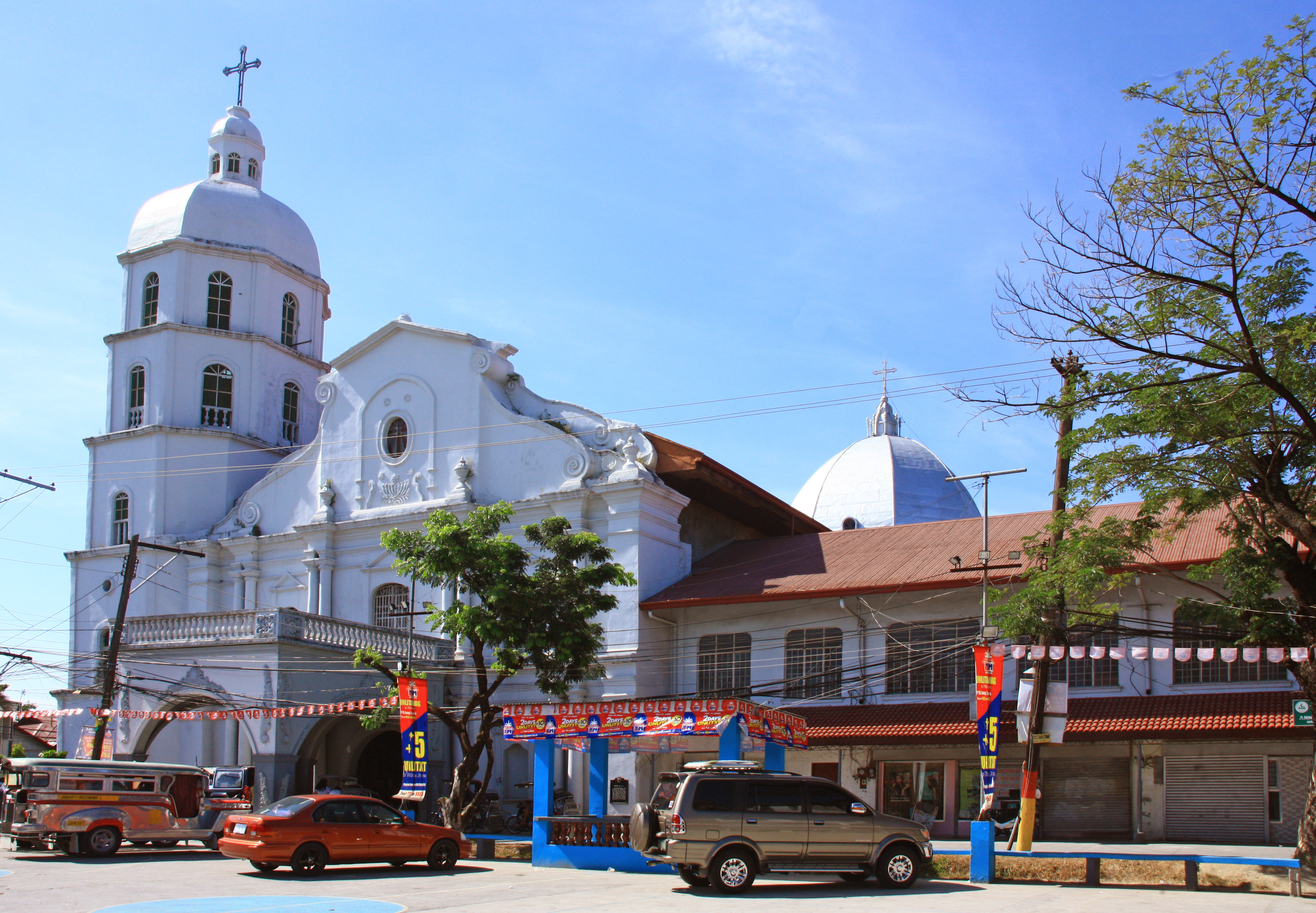 Facade of the Immaculate Conception church in Guagua